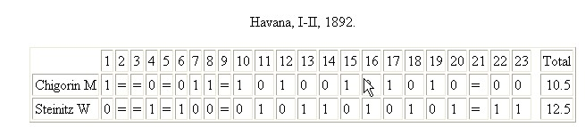 World Chess Championship 1892 Steinitz - Chigorin Title Match